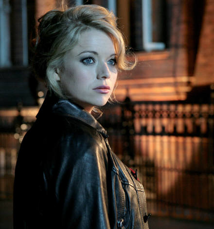 British actress Antonia Bernath playing the character Jimi in UK feature film "Cuckoo"